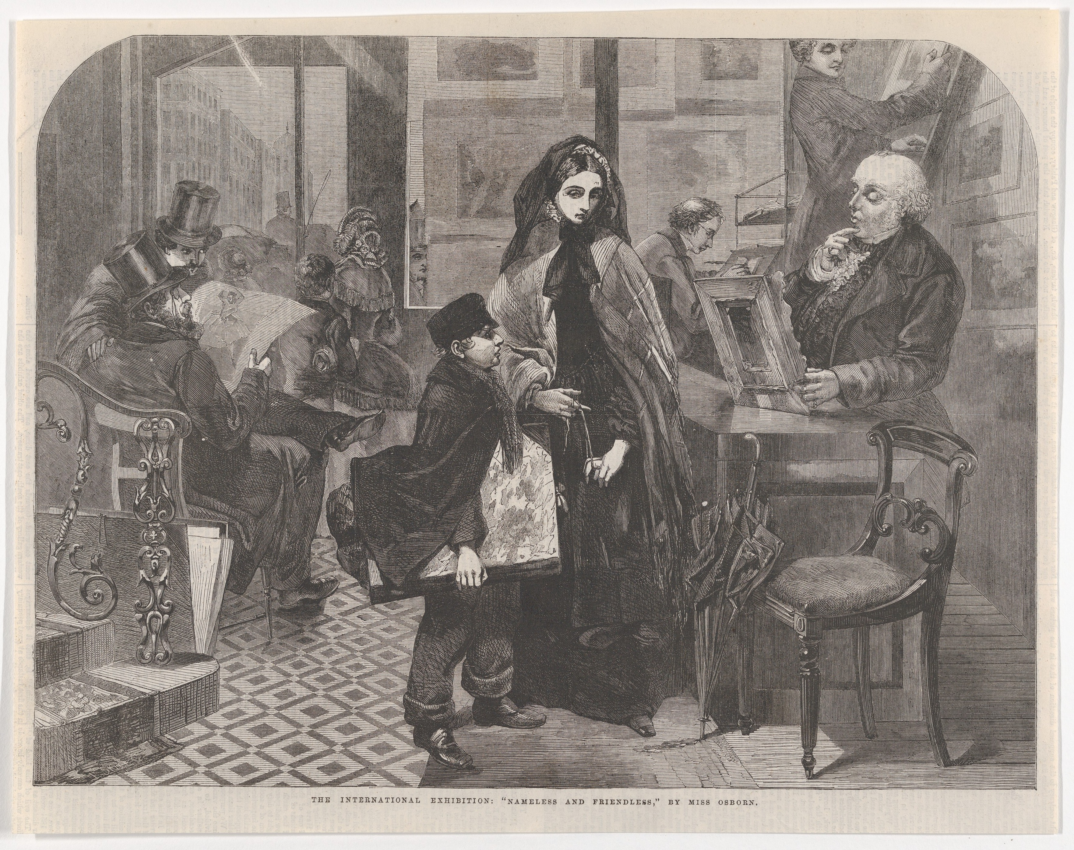 Print; Prints